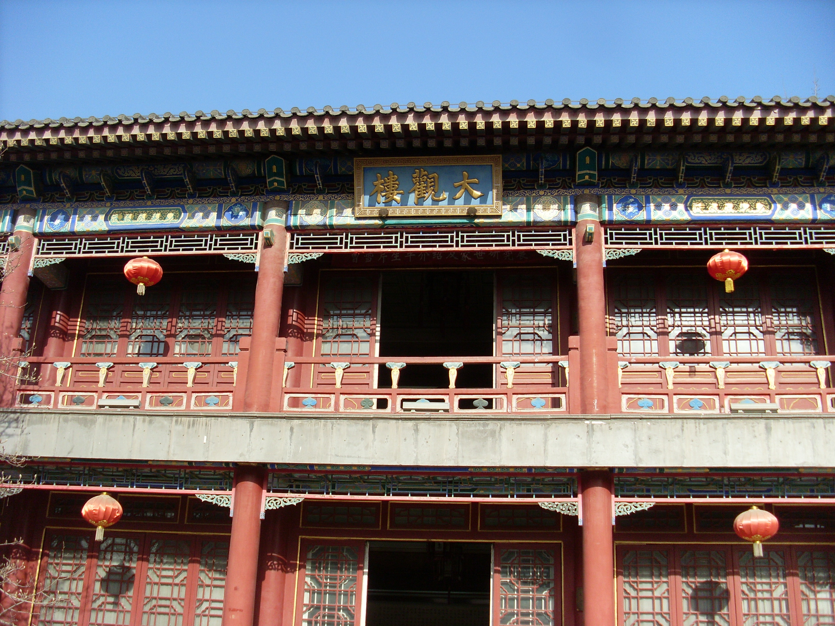 Daguanlou in Beijing Daguanyuan